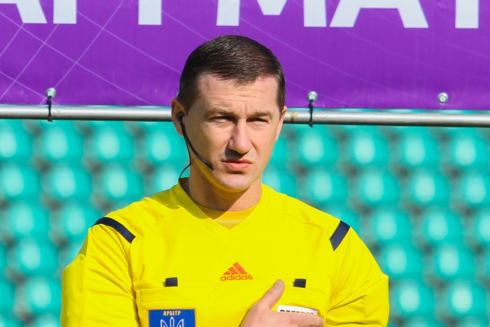 Yuriy Andriyovych Mozharovsky is an Ukrainian professional football referee